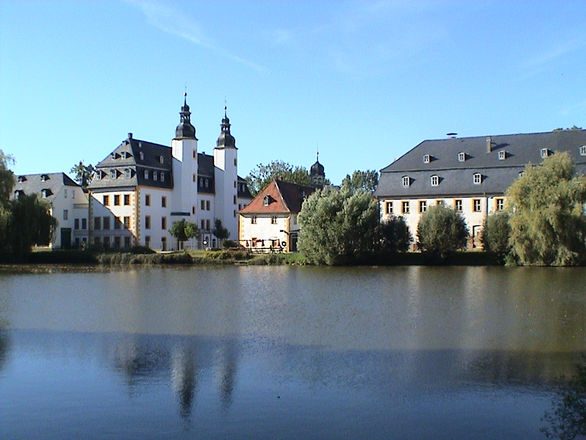 Manor Castle in "Blankenhain"